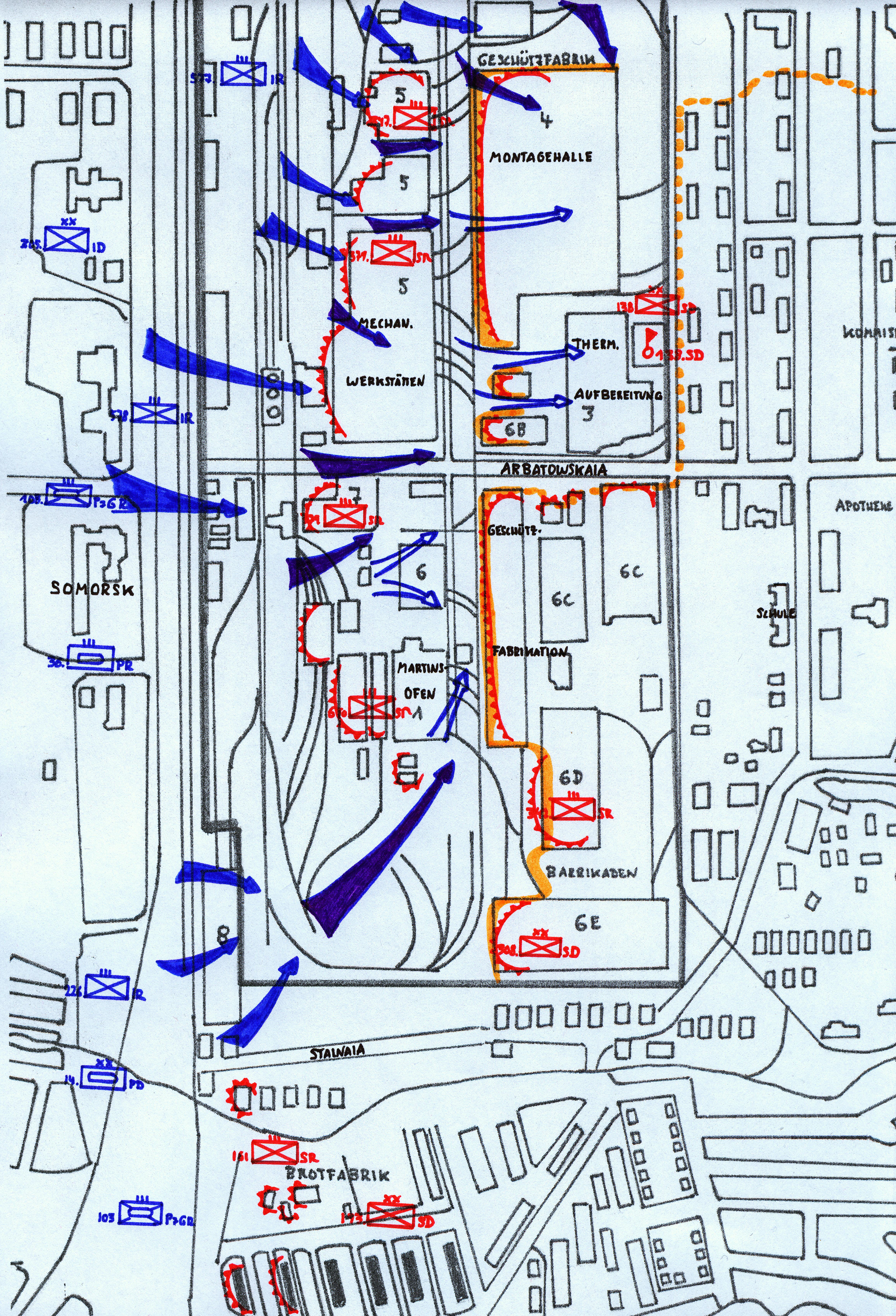 Barricady